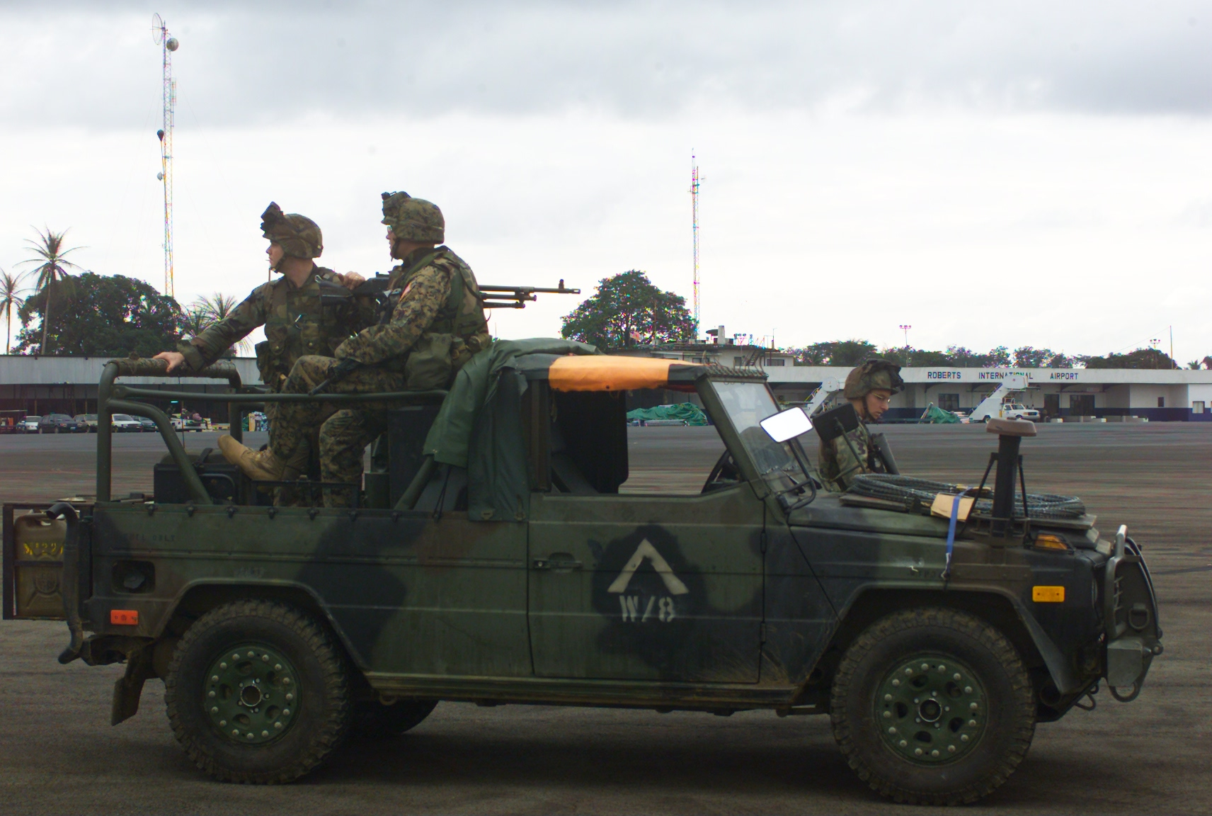 U.S. Marines from 26th Marine Expeditionary Unit (Special Operations Capable) at Roberts International Airport in Liberia during the Second Liberian Civil War. 26th MEU(SOC) participated in Joint Task Force Liberia.